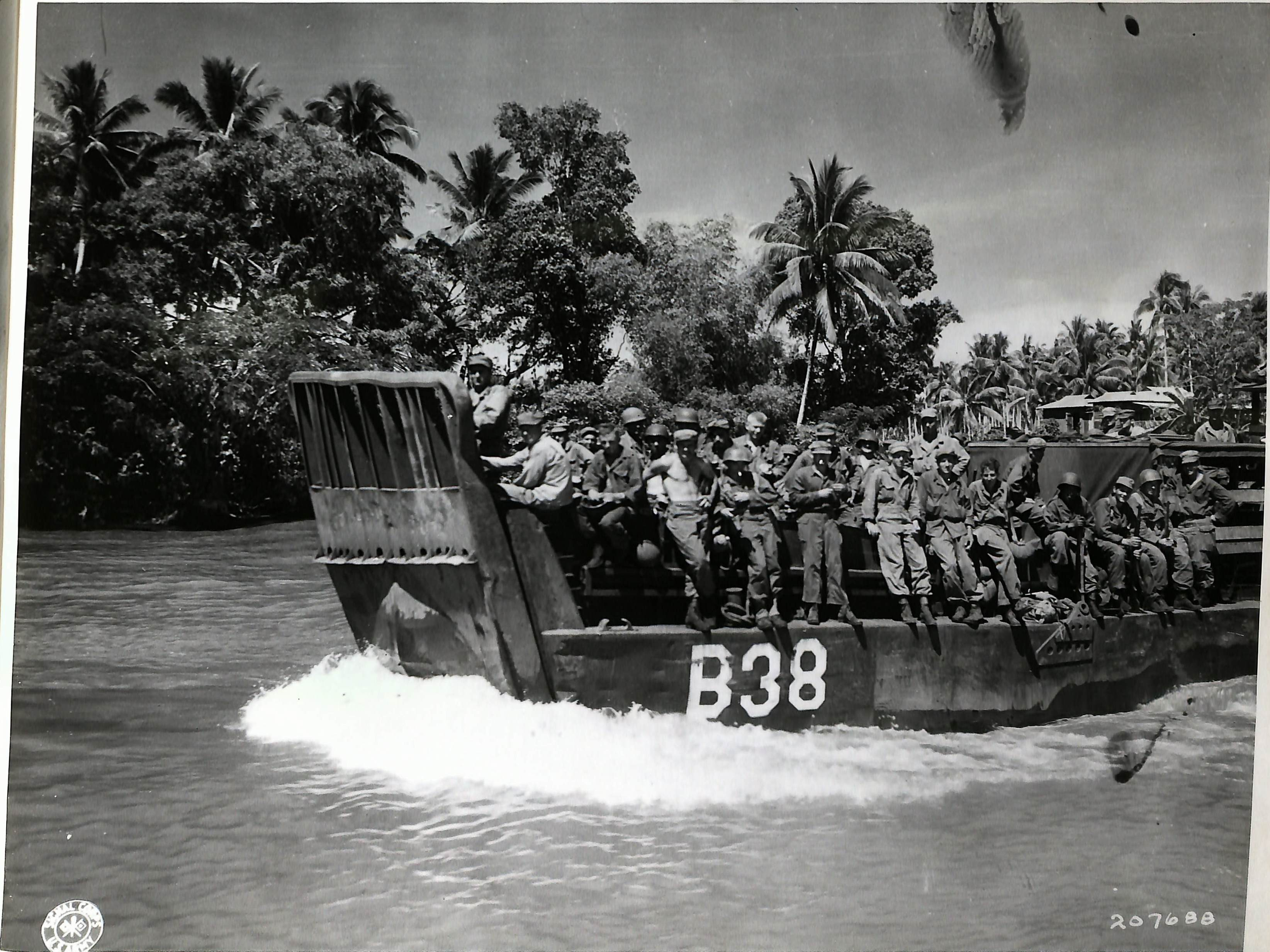 U.S. landing craft mechanized carries troops of Company I, 34th Infantry Regiment, 24th Infantry Division up the Mindanao river for the assault on Fort Pikit.